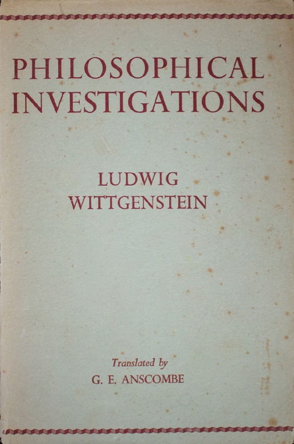 Ludwig Wittgenstein: PHILOSOPHISCHE UNTERSUCHUNGEN / PHILOSOPHICAL INVESTIGATIONS, Oxford: Basil Blackwell, 1953. 1st Edition. Translated by G. E. M. Anscombe. Large octavo, publisher's blue cloth, spine gilt, original printed dust jacket